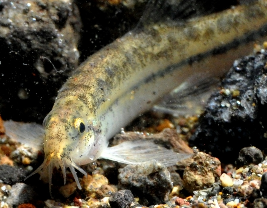 Lepidocephalichthys hasselti, ca 30 mm SL. From Banyumas, Central Java, Indonesia.